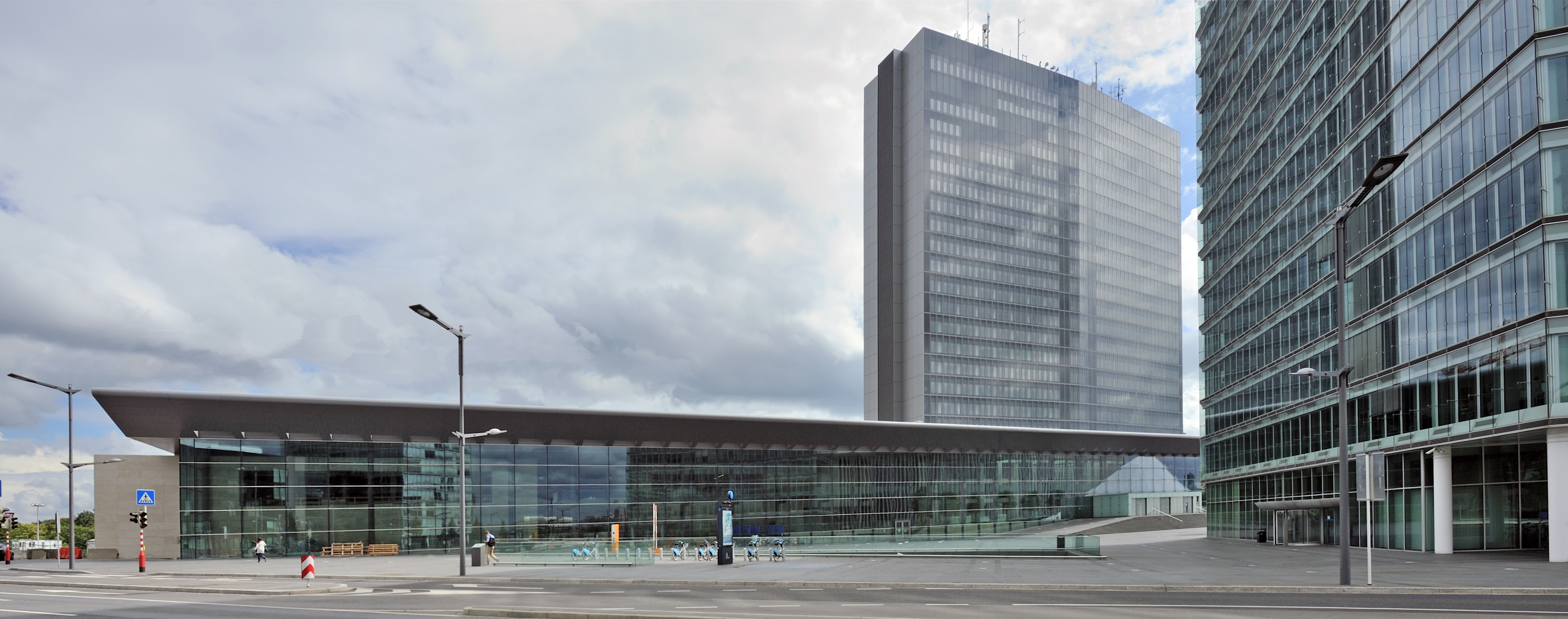 Luxembourg Kirchberg, Quartier européen Sud: Alcide De Gasperi Building (left) and part of Tower A of the Secretariat of the European Parliament (right).